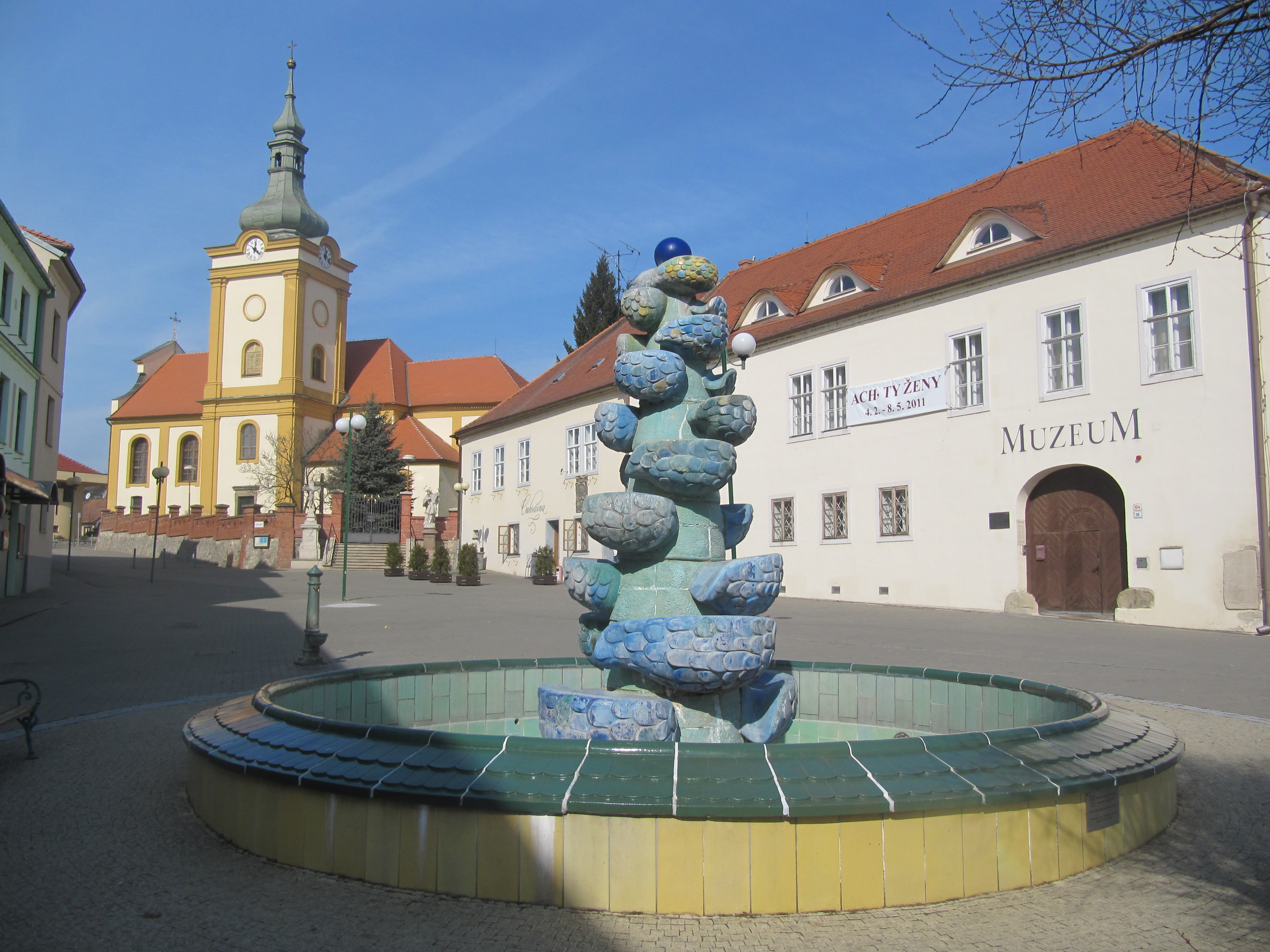 Šlapanice in Brno-Country District, Czech Republic. Sguare Masarykovo náměstí with fountain, presbytery museum and church.